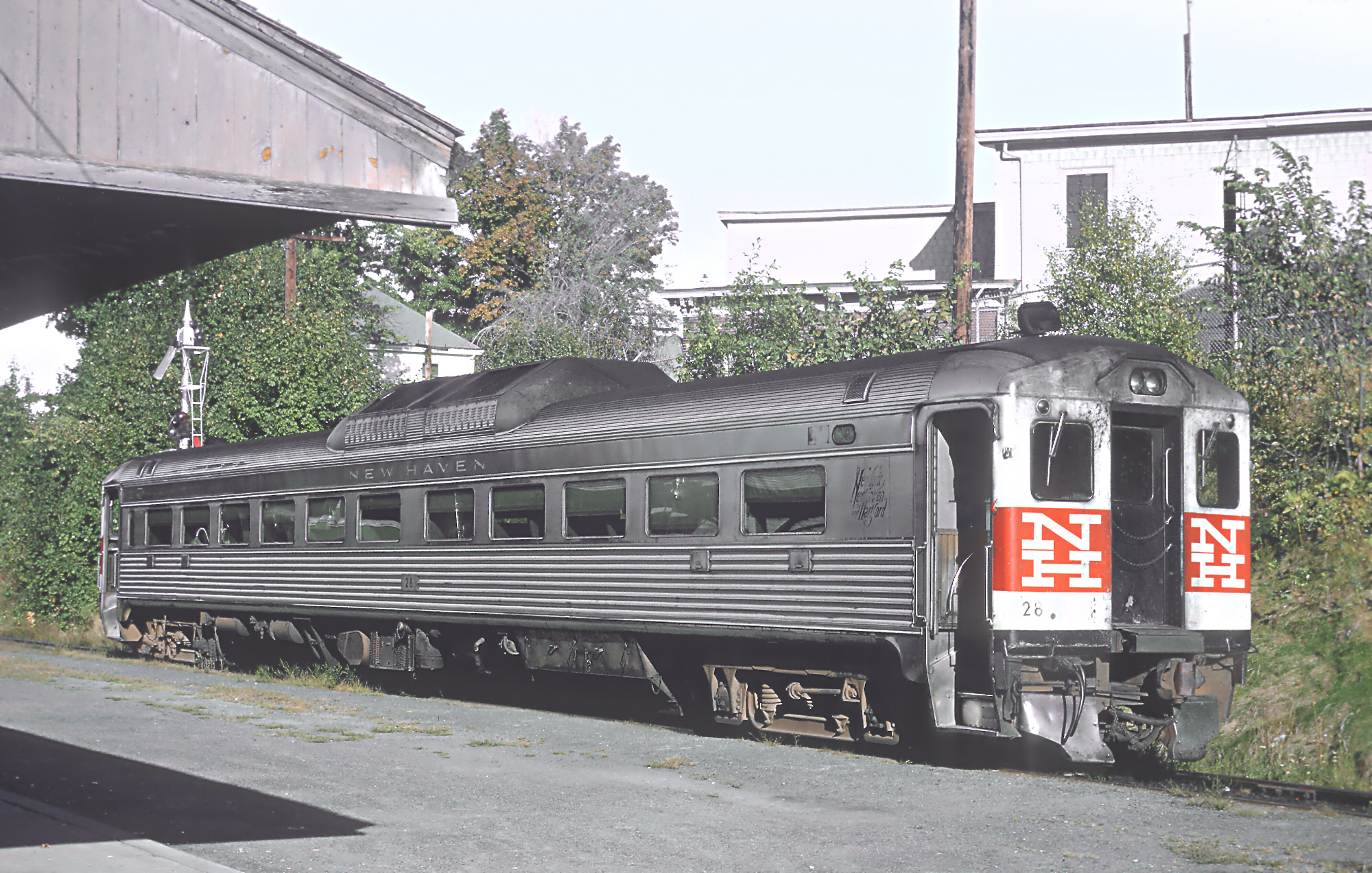 A New Haven RDC running train #726, a Shoreliner to Boston, at Franklin in September 1968